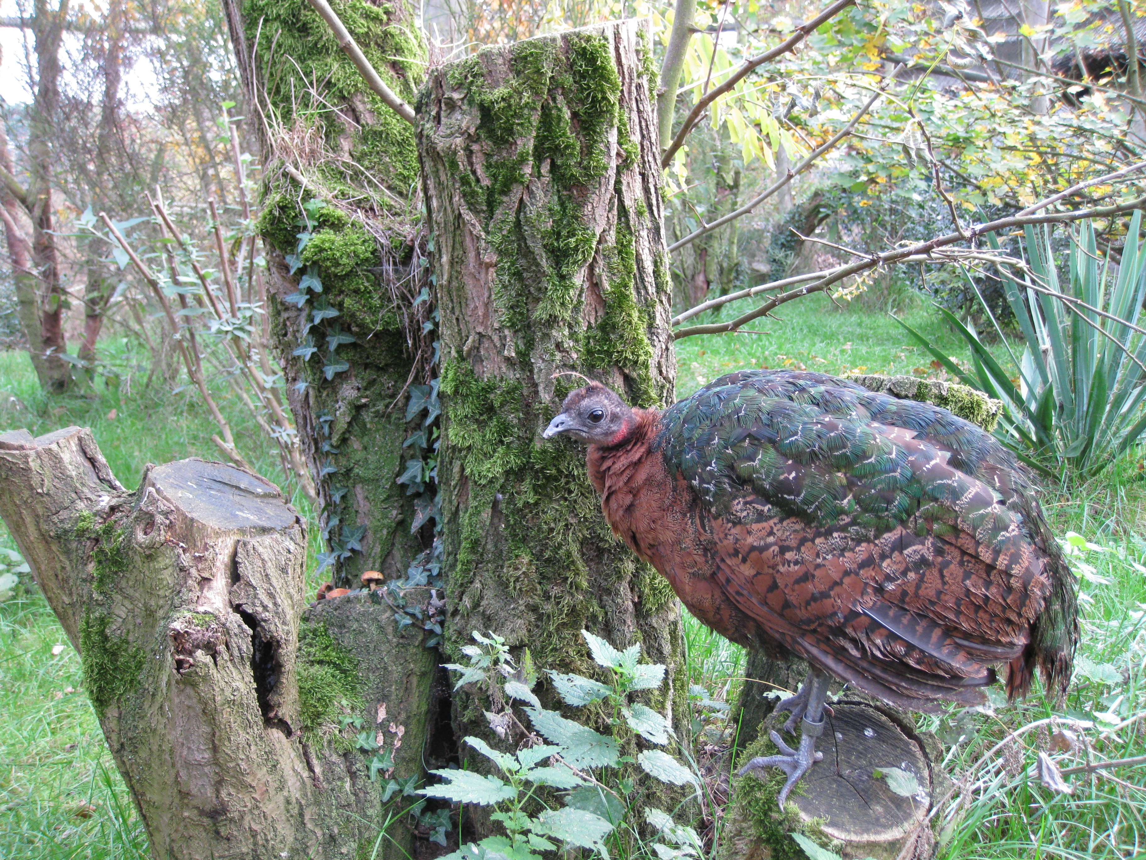 A female Congo Peafowl at Safaripark Beekse Bergen, Netherlands.